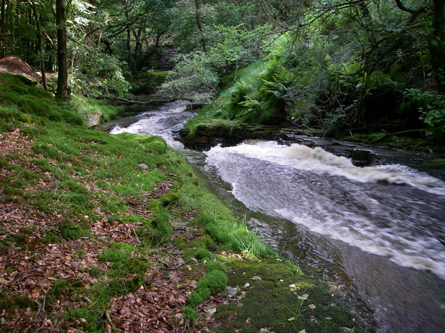 Afon Giedd gorge The Afon Giedd glides swiftly over slabs of sandstone which themselves dip southwards at the edge of Giedd Forest. The brown knoll on the left amongst the trees is a huge - and very active - anthill.